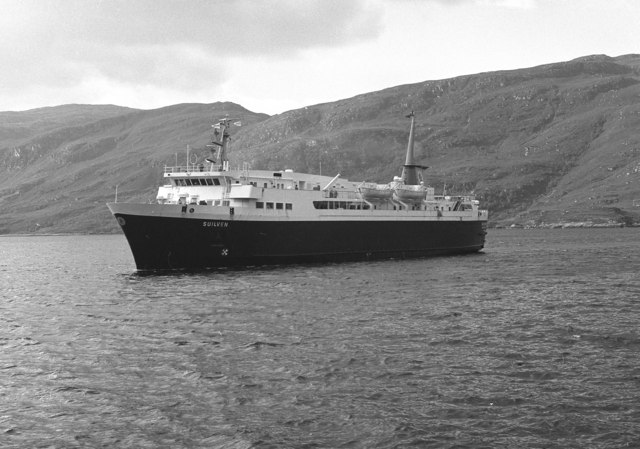 The Stornoway ferry off Ullapool The ferry 'Suilven' connects Ullapool with Stornoway on the Isle of Lewis. This voyage takes around 4 hours and should not be contemplated by those not possessed of an iron stomach. The heavy odour of herring which pervades the whole of Ullapool does not help. I am pleased to say that your photographer survived unscathed.